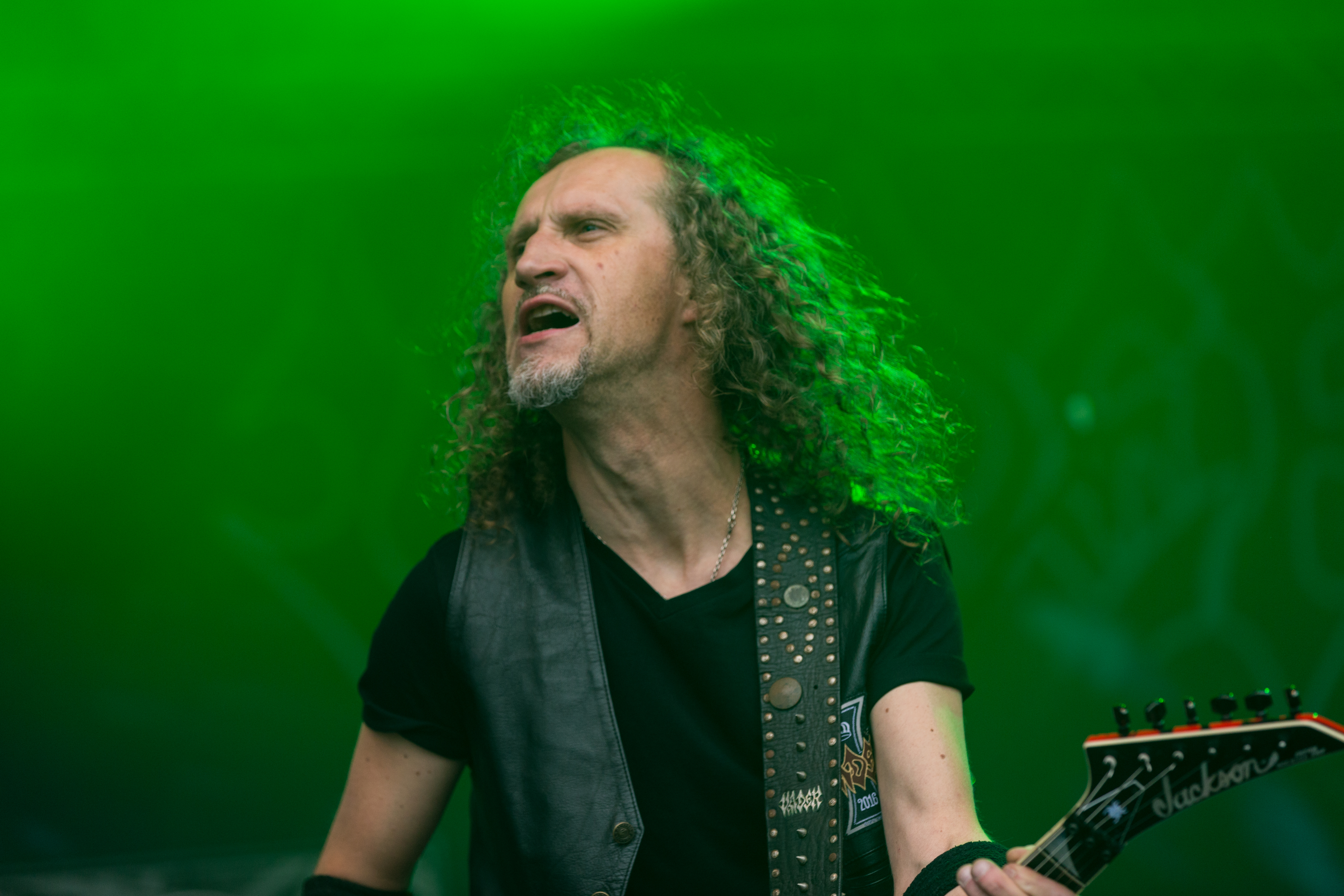 The Polish death metal band Vader at the Metal Frenzy 2017 in Gardelegen/Germany.